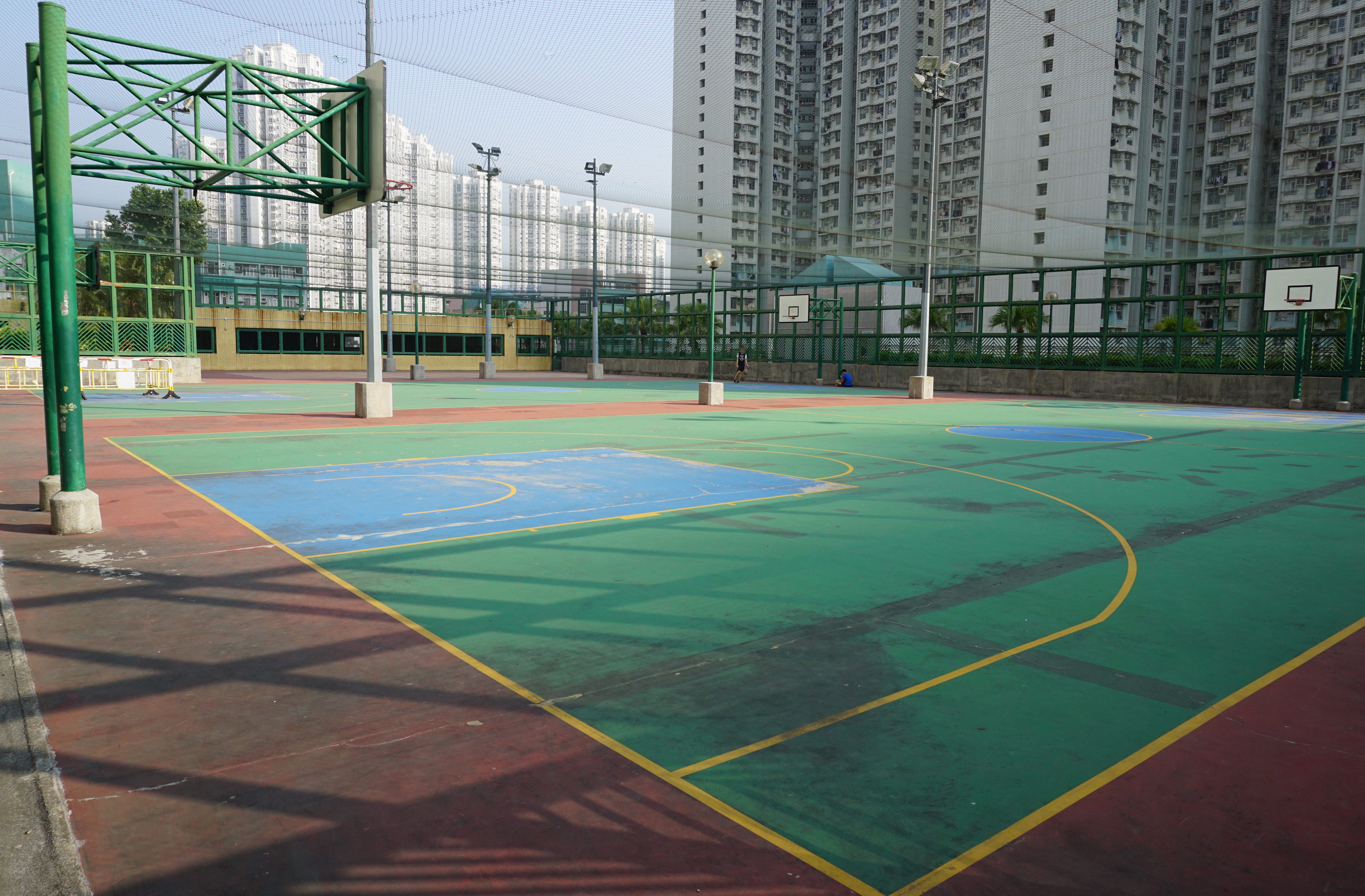 Tin Yuet Estate in Tin Shui Wai, Hong Kong.